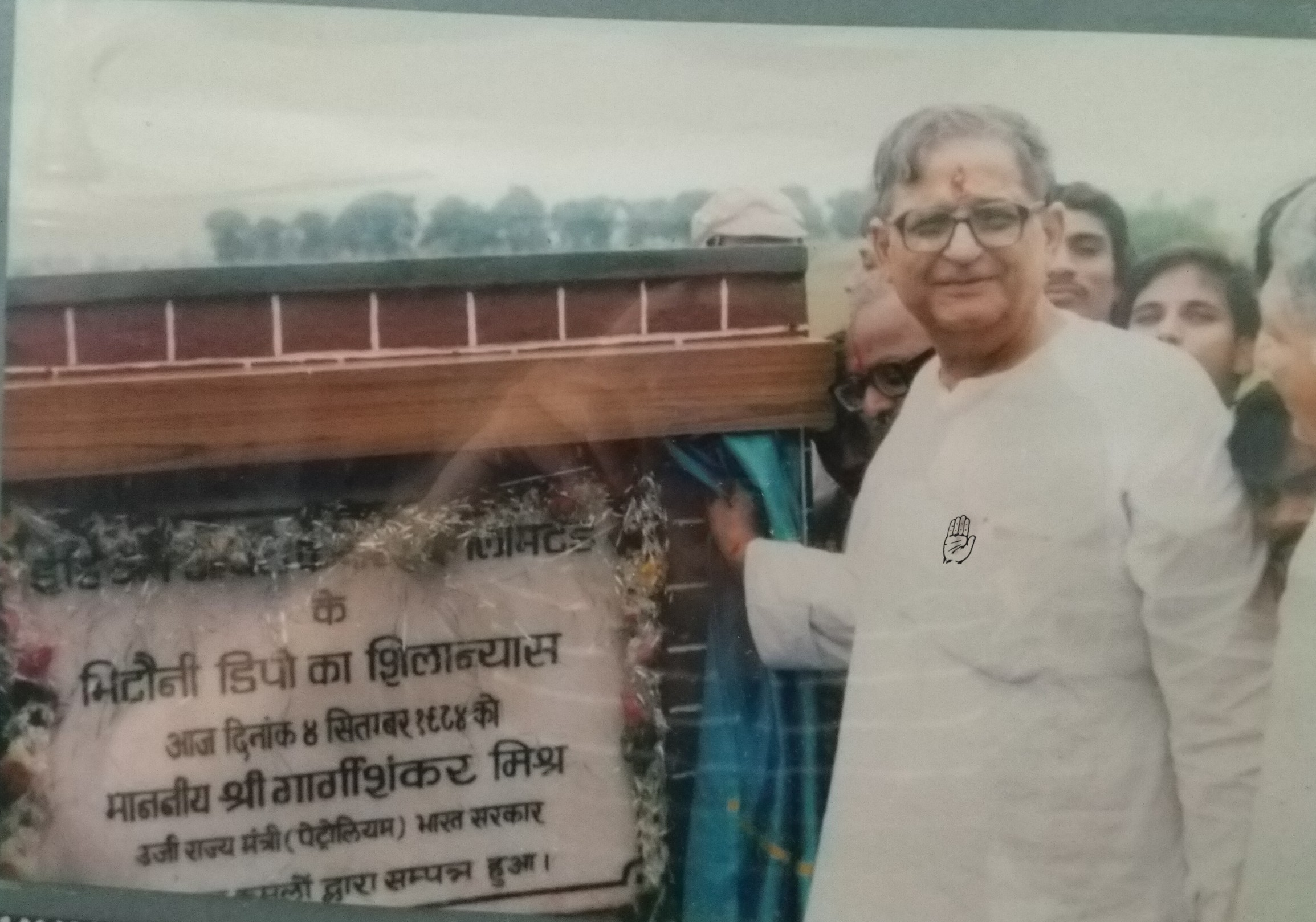 Lok sabha MP from Seoni, Chhindwara Madhya Pradesh Shri Mishra at a public function surrounded by supporters/constituents